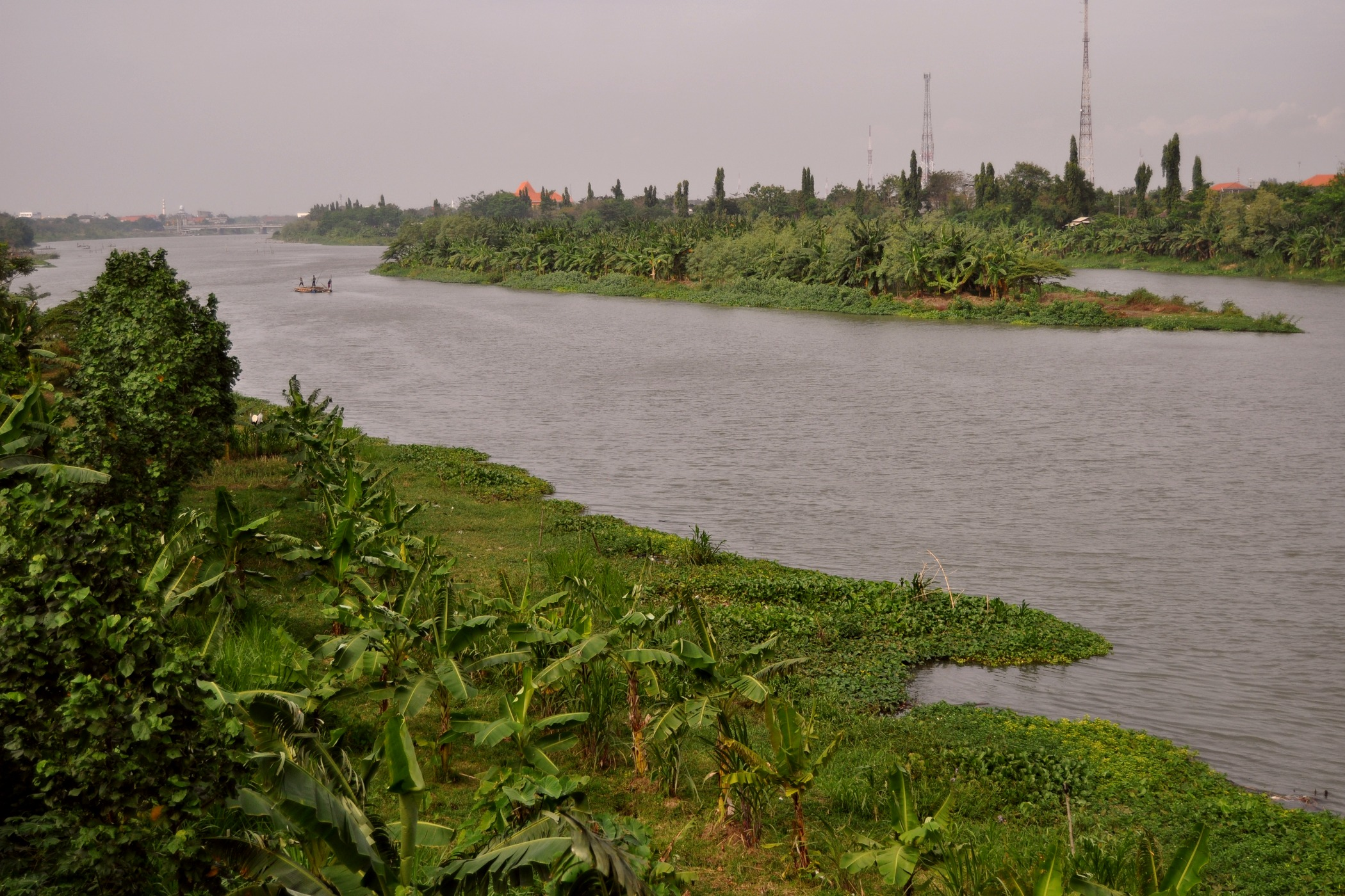 Brantas river passing Kediri city.